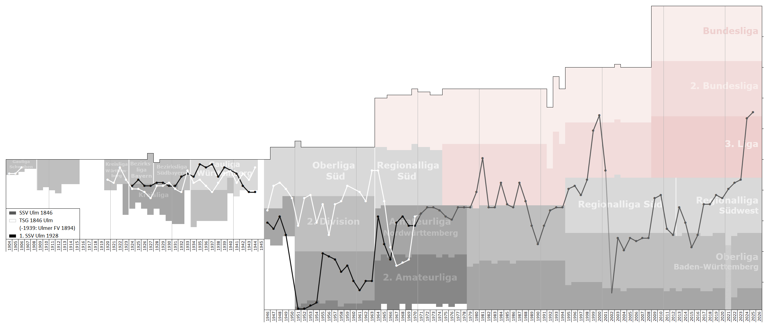 Chart of end-season table positions of SSV Ulm in the football league system of Germany. Data source: RSSSF, wikipedia, f-archiv.de, fussball.de